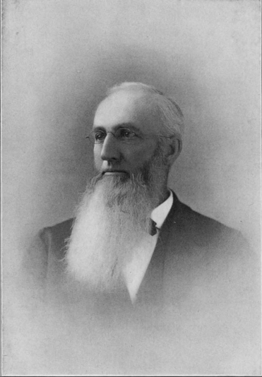 Sereno Watson (December 1, 1826 in East Windsor Hill, Connecticut - March 9, 1892 in Cambridge, Massachusetts) was an American botanist.